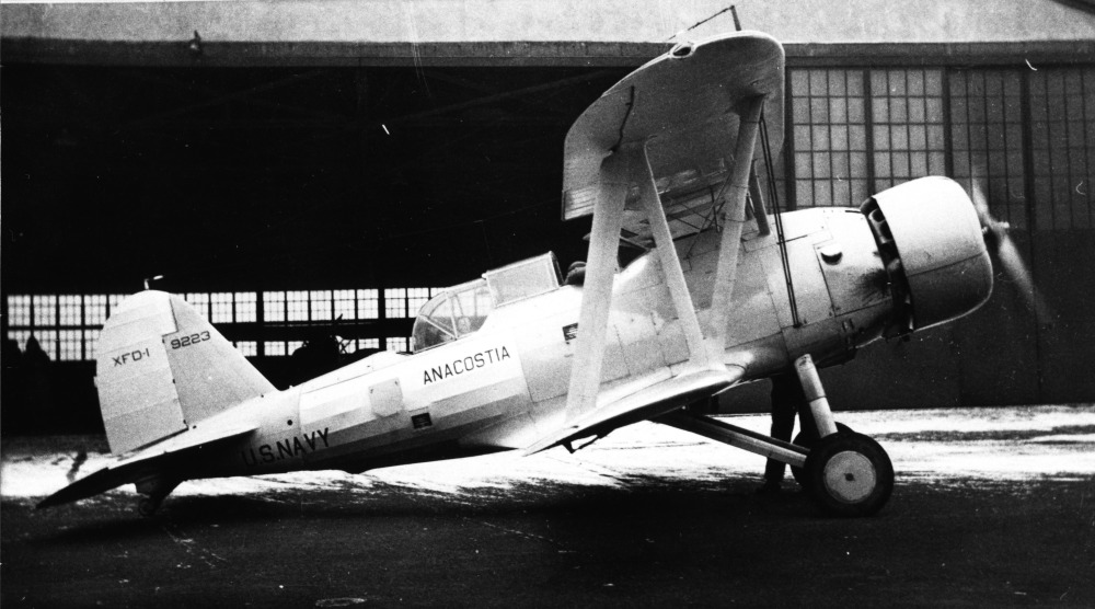 PictionID:40961358 - Catalog:16_000083 Douglas XFD-1 9223 26Jun33 factory mfr - Filename:16_000083 Douglas XFD-1 9223 26Jun33 factory mfr.tif - - - Ray Wagner was Archivist at the San Diego Air and Space Museum for several years and is an author of several books on aviation --- ---Please Tag these images so that the information can be permanently stored with the digital file.---Repository: San Diego Air and Space Museum